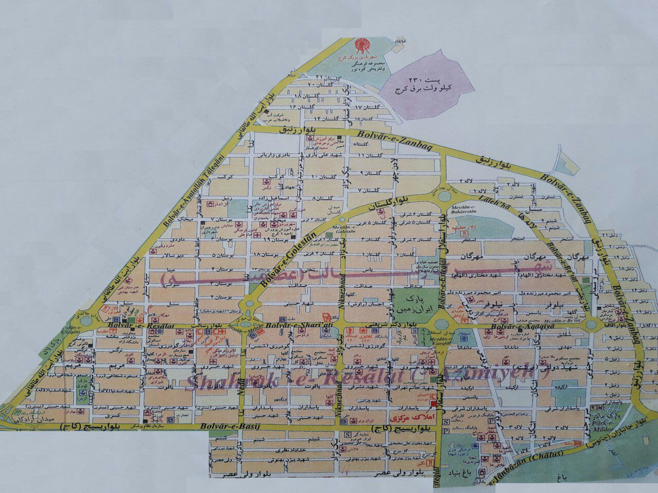 map azimiyeh